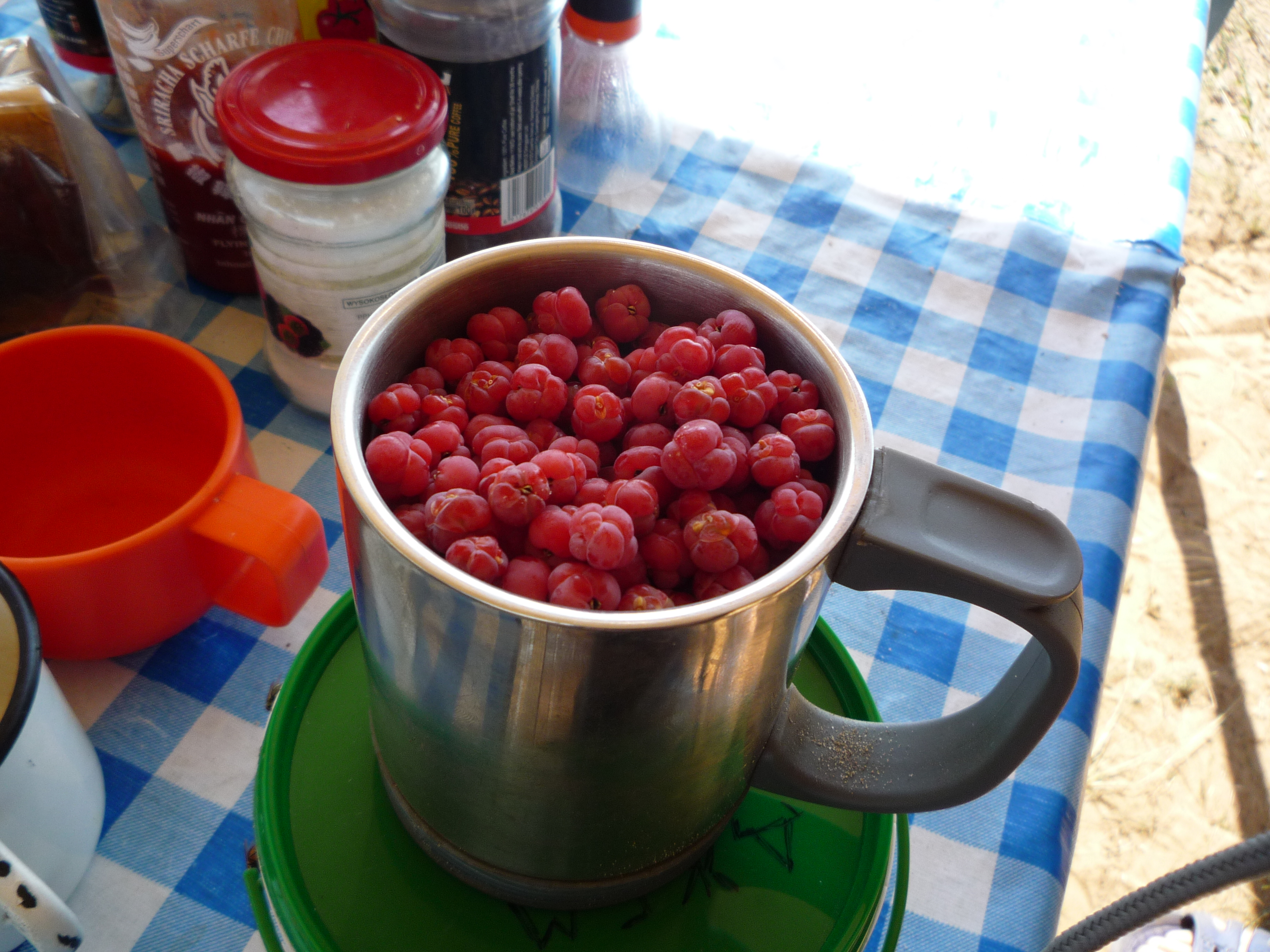 Ephedra dahurica: mug full of berries. Central Mongolia. Tov aimag, Bayan Onjuul sum